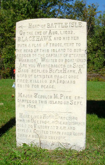 Photo shot myself on 9/28/2007 (rattis_irrittis)